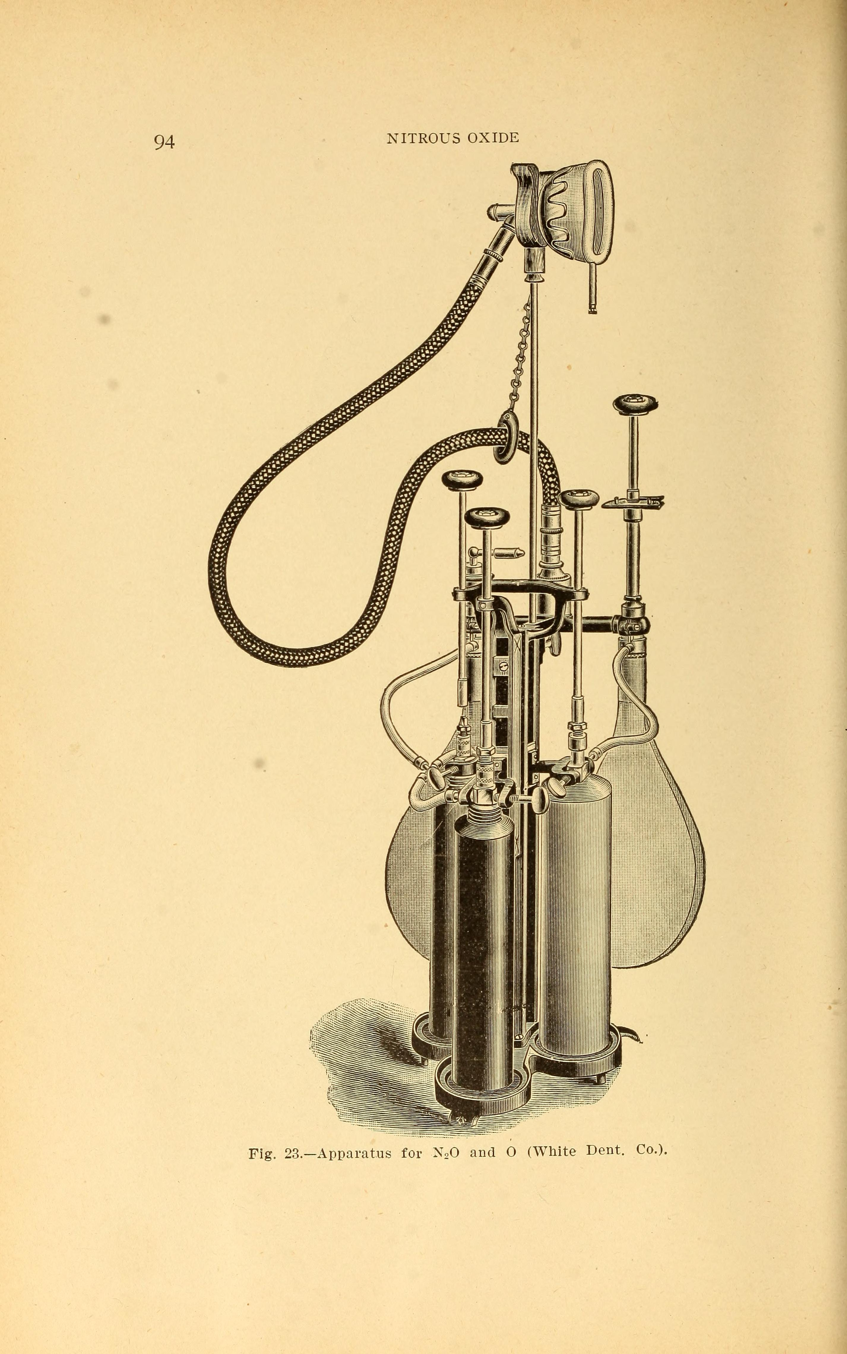 Title: Anæsthesia and anæsthetics general and local Year: 1903 (1900s) Authors: Patton, Joseph M(cIntyre), 1866- (from old catalog) Subjects: Publisher: Chicago, Cleveland press Text Appearing Before Image: Fig. 22.—Goldans Apparatus for N20 and O. (Am. Jour. Med. Sci., June, 1901.) 94 NITROUS OXIDE Text Appearing After Image: Fig. 23.—Apparatus for N20 and O (White Dent. Co.). NITROUS OXIDE 95 Fig. 23. One cylinder contains Pure Oxygen. The other cylinder is filled with Nitrous Oxide. There are rubber bags, of different colors to avoid confusion; blackfor Nitrous Oxide and red for Oxygen. There are keys which open the valves of the cylinders and allow thegas to fill the bags through the tubes. Another set of valves being closed, the gas remains in the bags. Byopening one Nitrous Oxide is admitted to mixing chamber, from which itflows through the covered rubber tube to the Inhaler. When it is desired to combine Pure Oxygen with the Nitrous Oxide,open valve, which admits Oxygen to the Mixing Chamber, and bothflow together to the Inhaler. This valve with its indicator plate is designed especially to enablethe operator to follow out Dr. Hewitts method, and to this end the valveaperture is enlarged regularly as the handle is turned from I to 10; beyondthis the valve operates as an ordinary valve and may be op